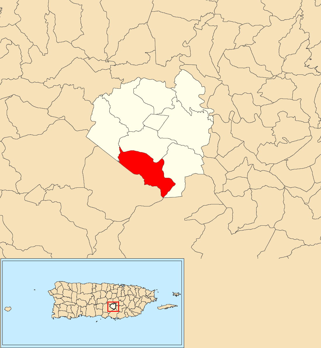 Algarrobo, Aibonito, Puerto Rico locator map